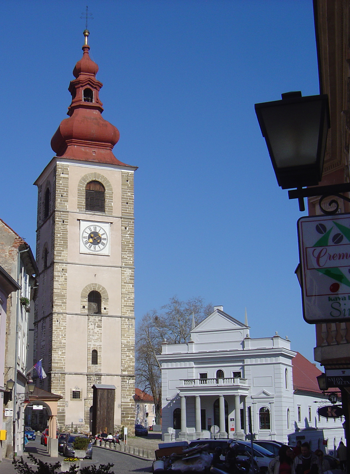 Ptuj Tower.